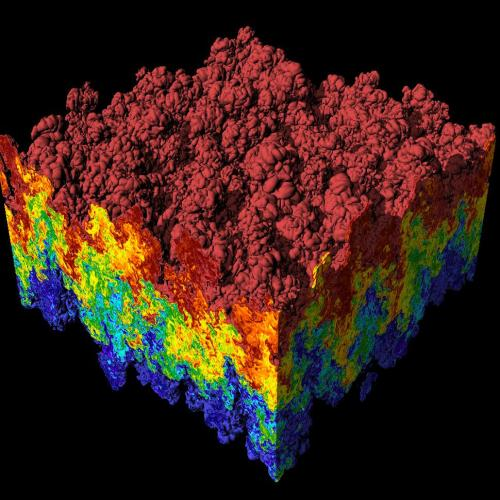 Scientific visualization of an extremely large simulation of a Rayleigh–Taylor instability problem. This image was generated by the VisIt Visualization System.